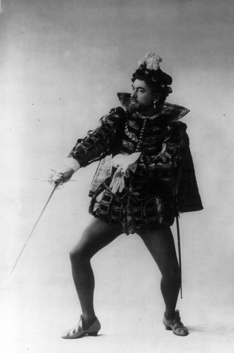 French opera singer Victor Maurel (1848-1923)